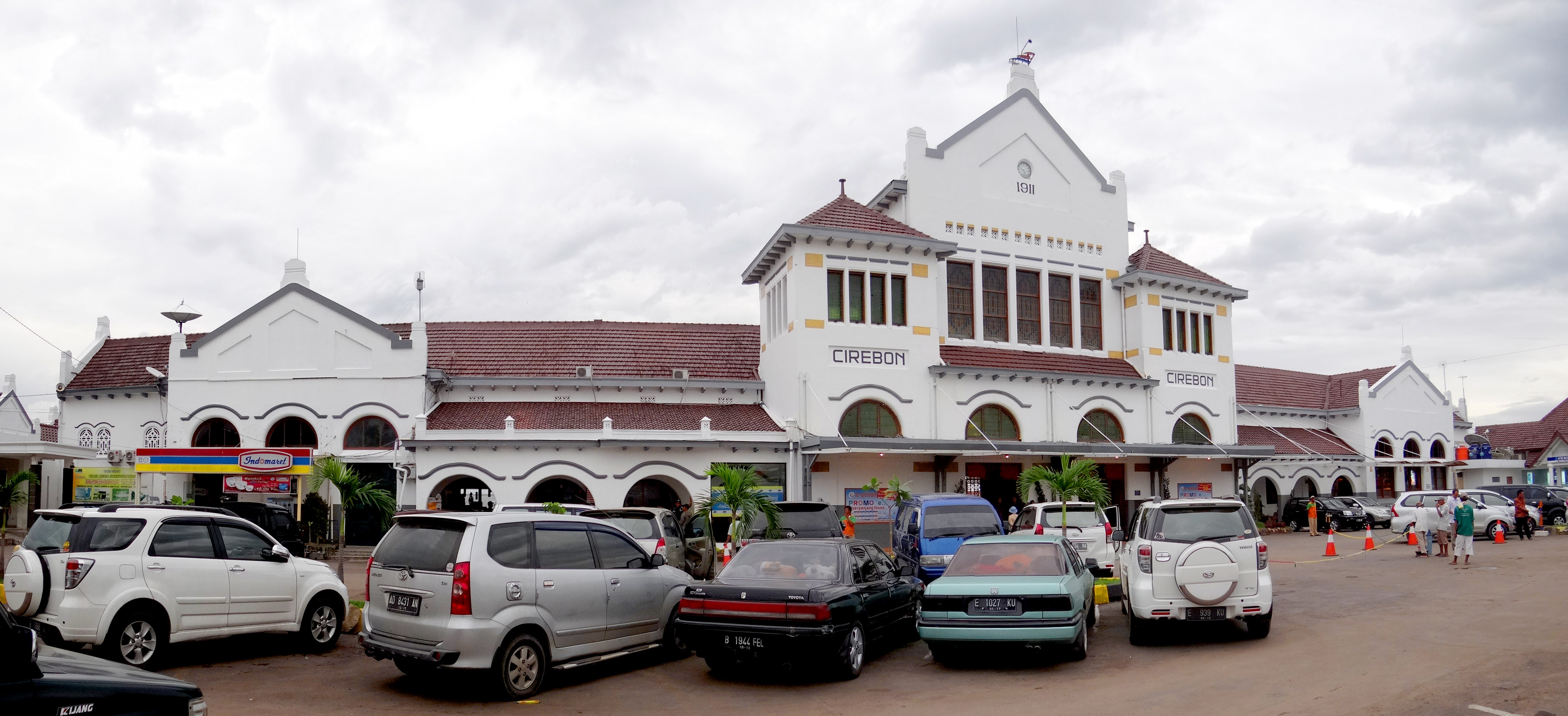 Cirebon Kejaksan Station is the main station of Cirebon. Designed by a Dutch architect Pieter Adriaan Jacobus Moojen, it was built by the train company Staats Spoorwegen (SS) in 1912.